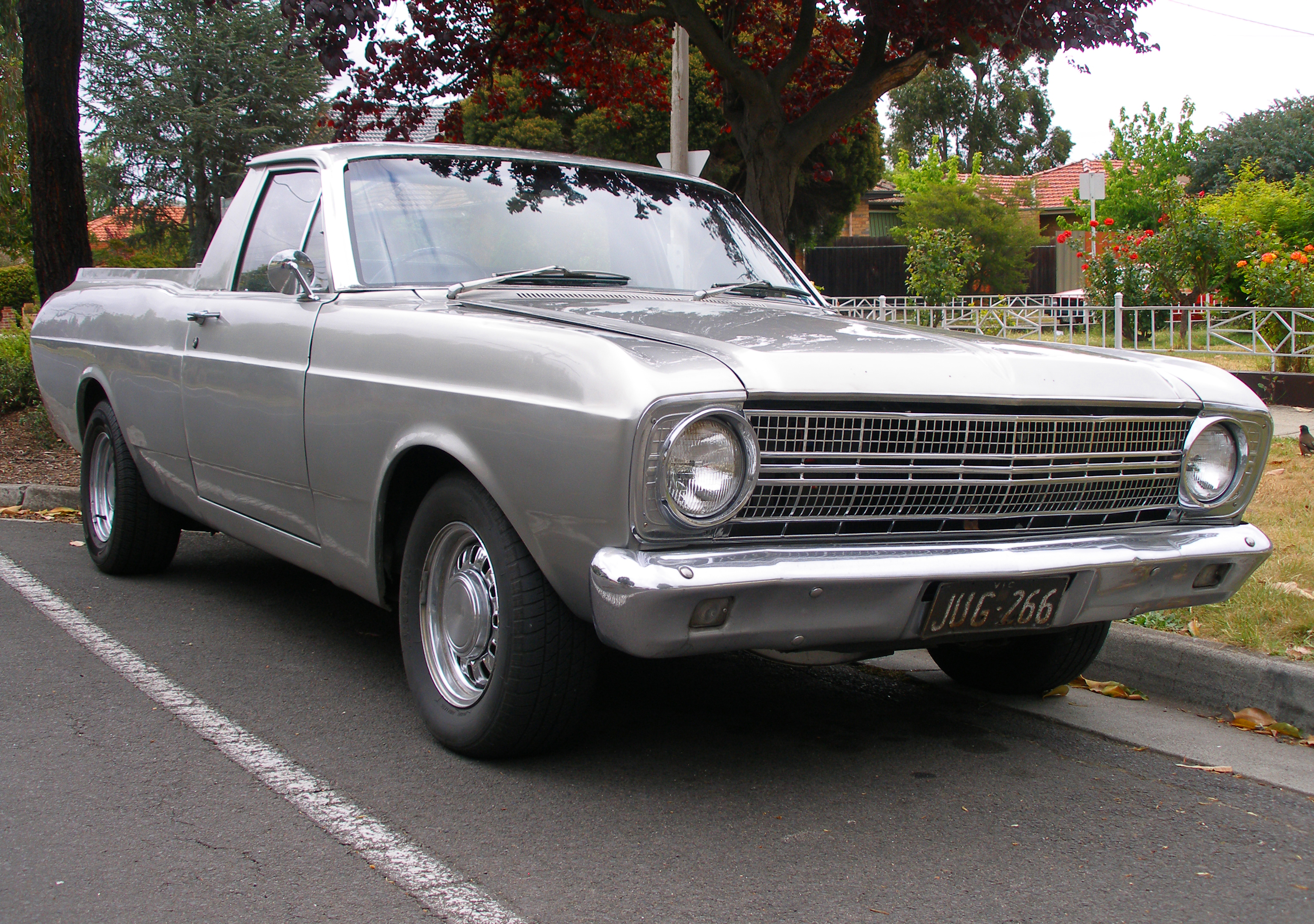 1966 Ford XR Falcon ute - Based on the 1966 third generation US Ford Falcon, the ute and panel van versions were designed and sold only in Australia